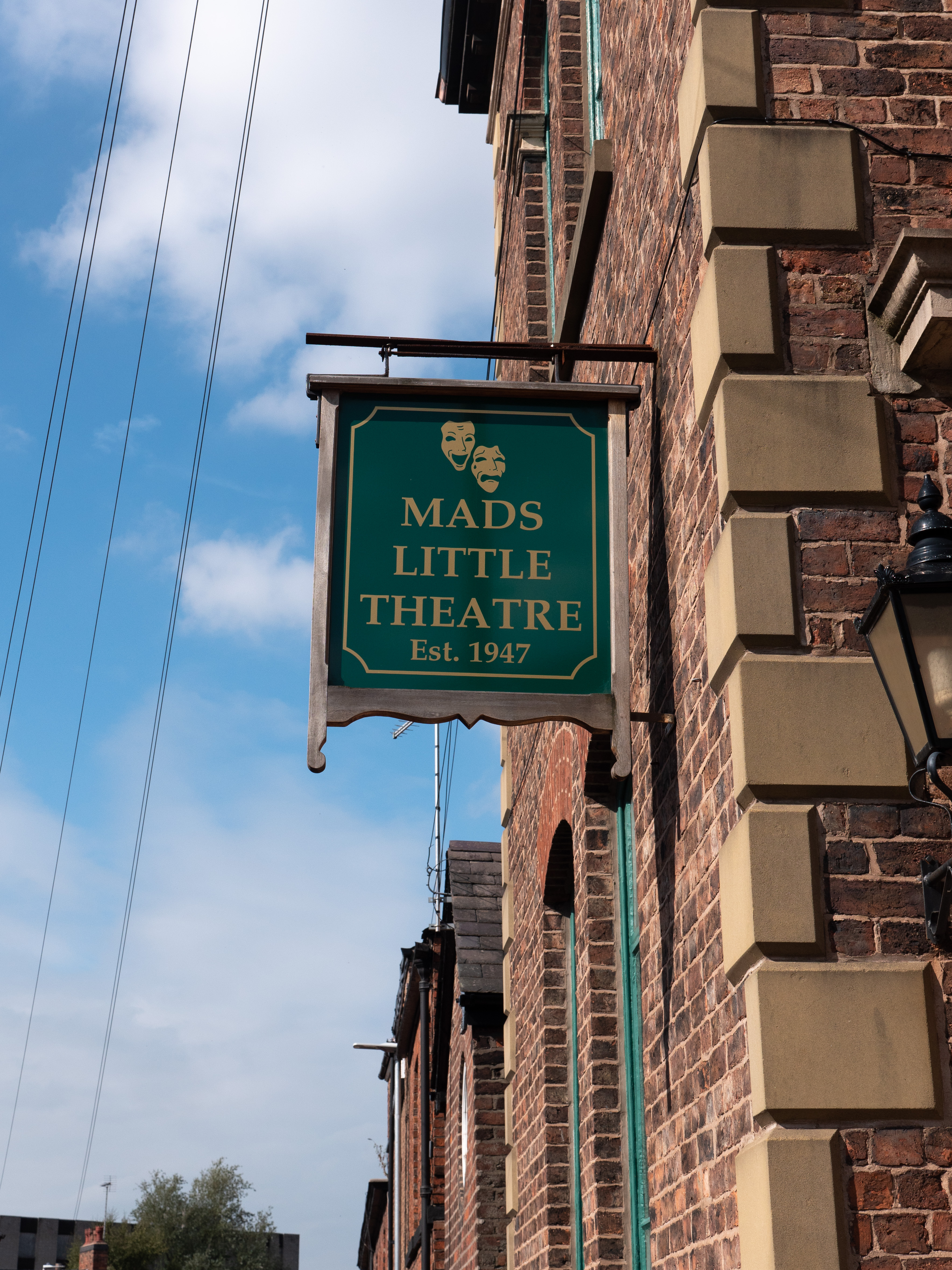 MADS Little Theatre on Lord Street, Macclesfield.